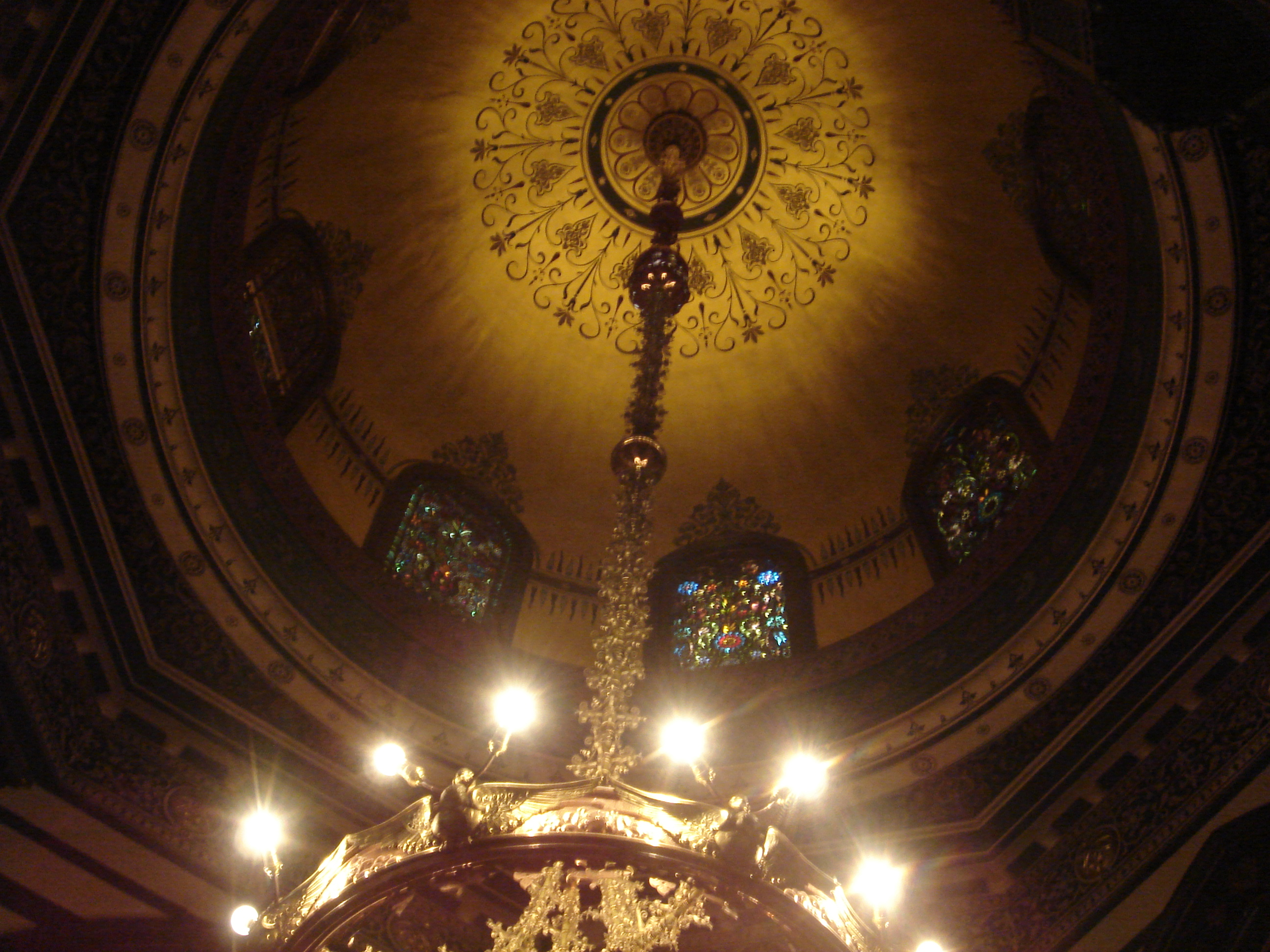 Leighton House